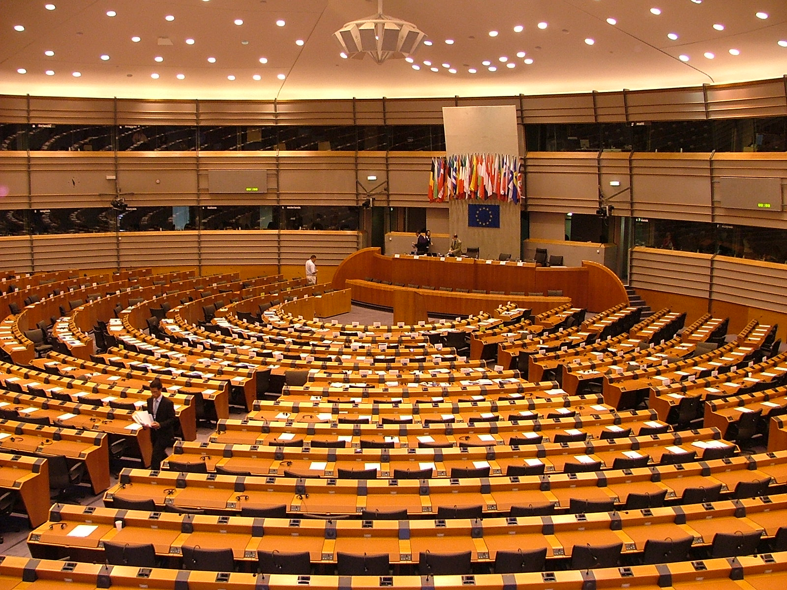 The Espace Leopold, the seat of the European Parliament in Brussels. Main chamber of Parliament.